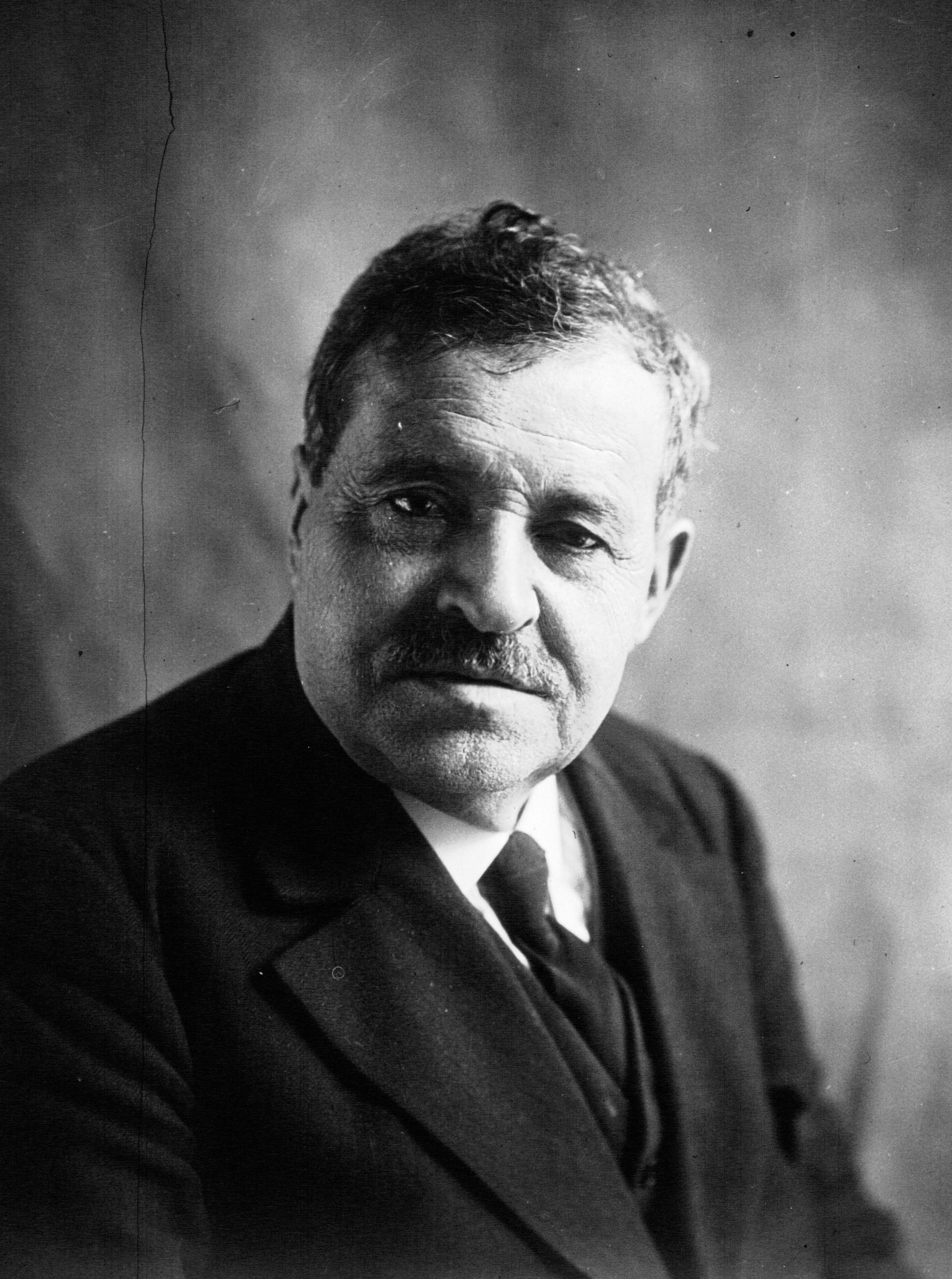 Portrait of the Occitan politician Leon Castèl